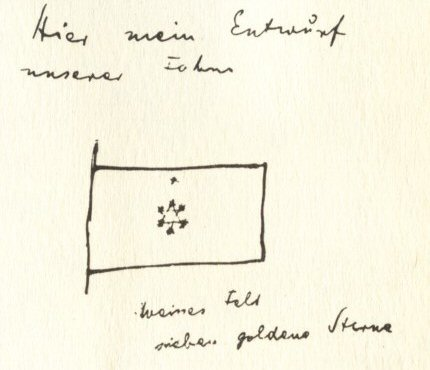 Sketch of Herzl's proposal for the flag of the Zionist movement. Found at [1] Herewith my design for our flag white field seven golden stars